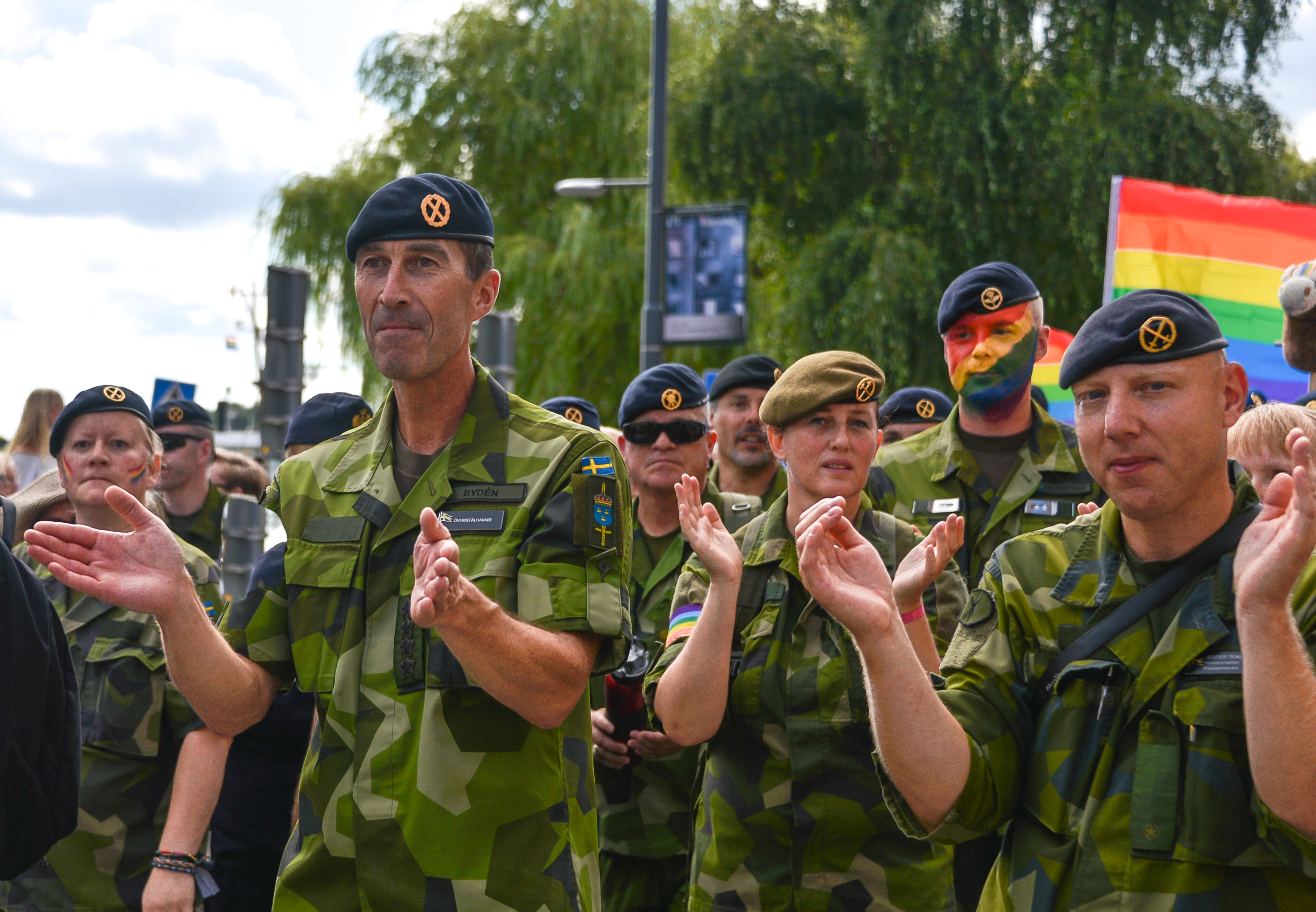 Micael Bydén in the Pride Parade during Stockholm Pride 2018.